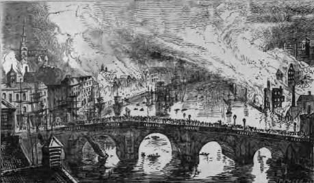 Great fire of Newcastle and Gateshead 1854.